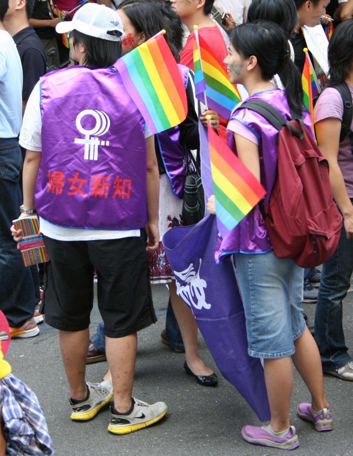 Awakening Foundation on Taiwan Pride 2005 See 婦女新知基金會. Dunhua South Road, Taipei City, Taiwan.